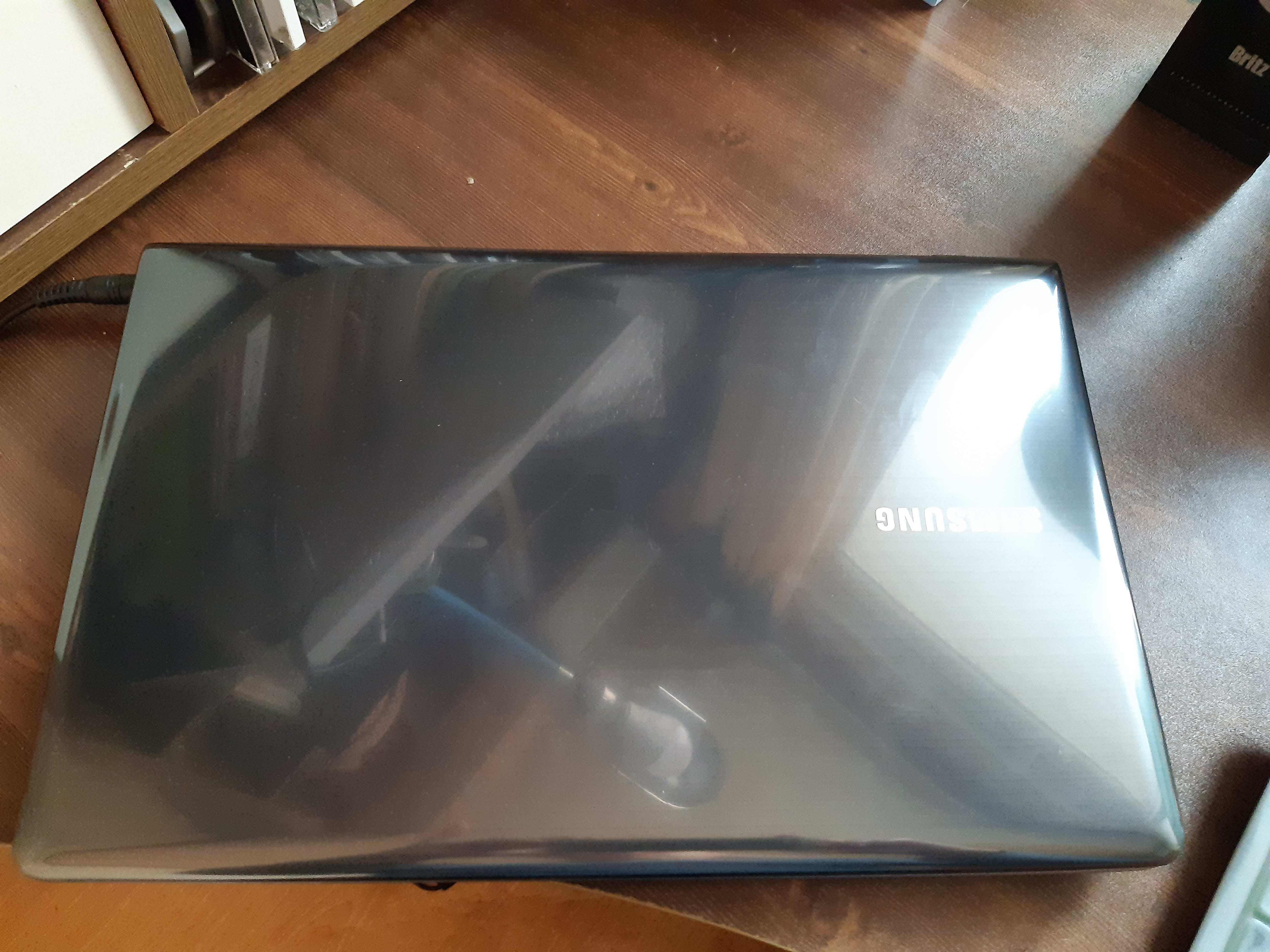 Samsung Notebook